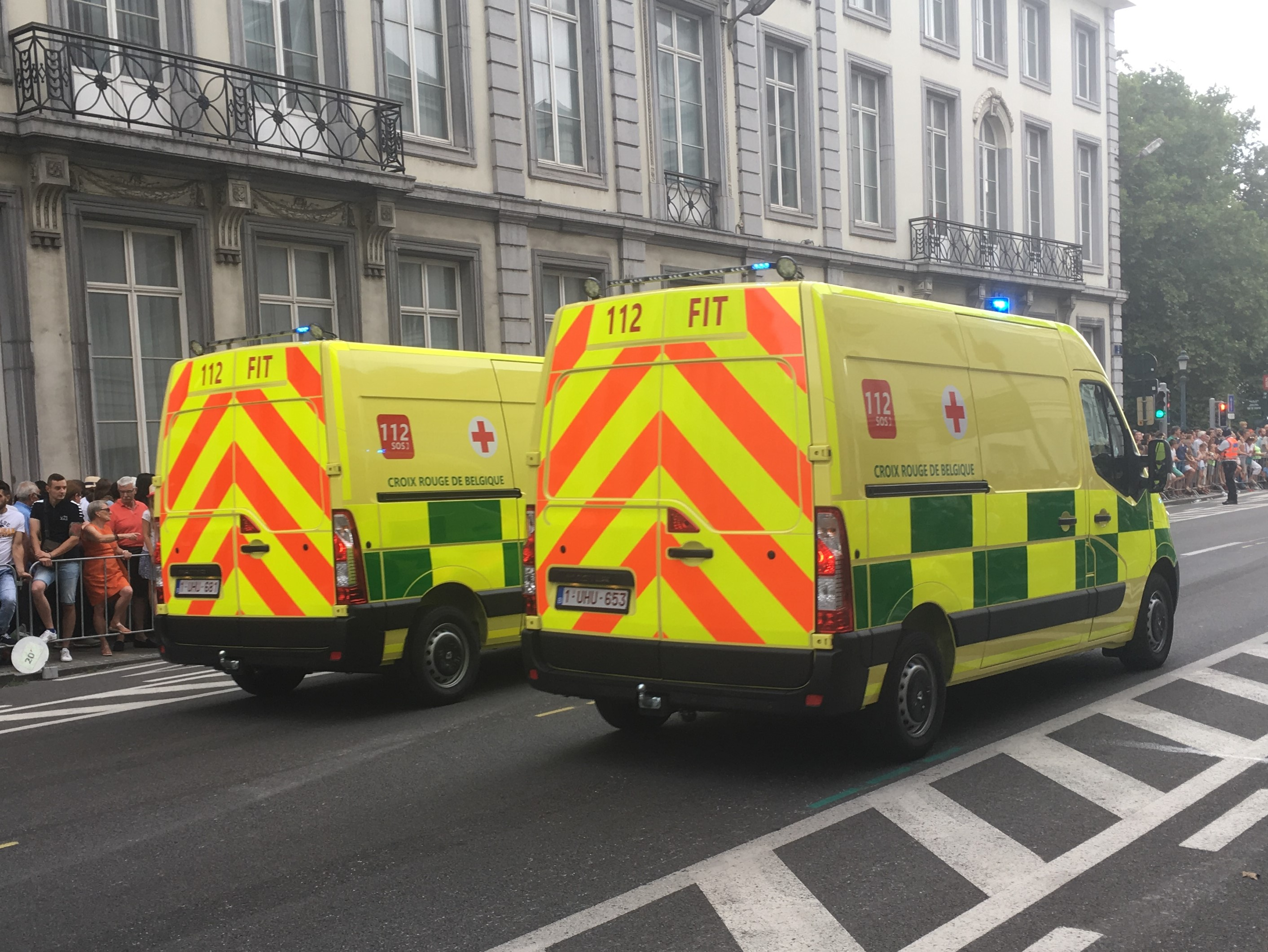 Belgian FIT vehicles (First Intervention Team) of the Red Cross with Battenburg colors during the National Parade on July 21, 2018 (backside)